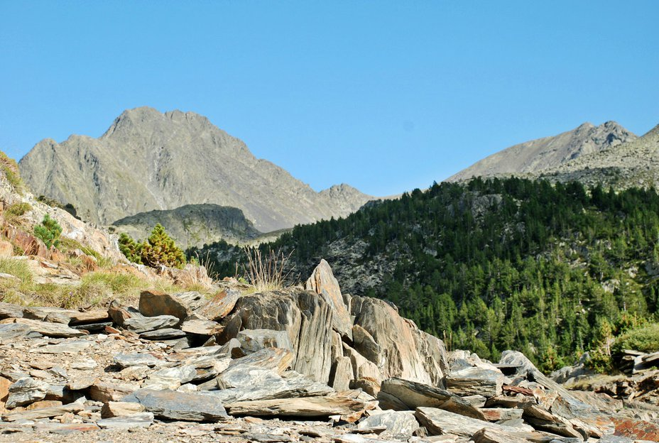 Carlit Peak from Lanoux lake, Pyrénées Orientales, France